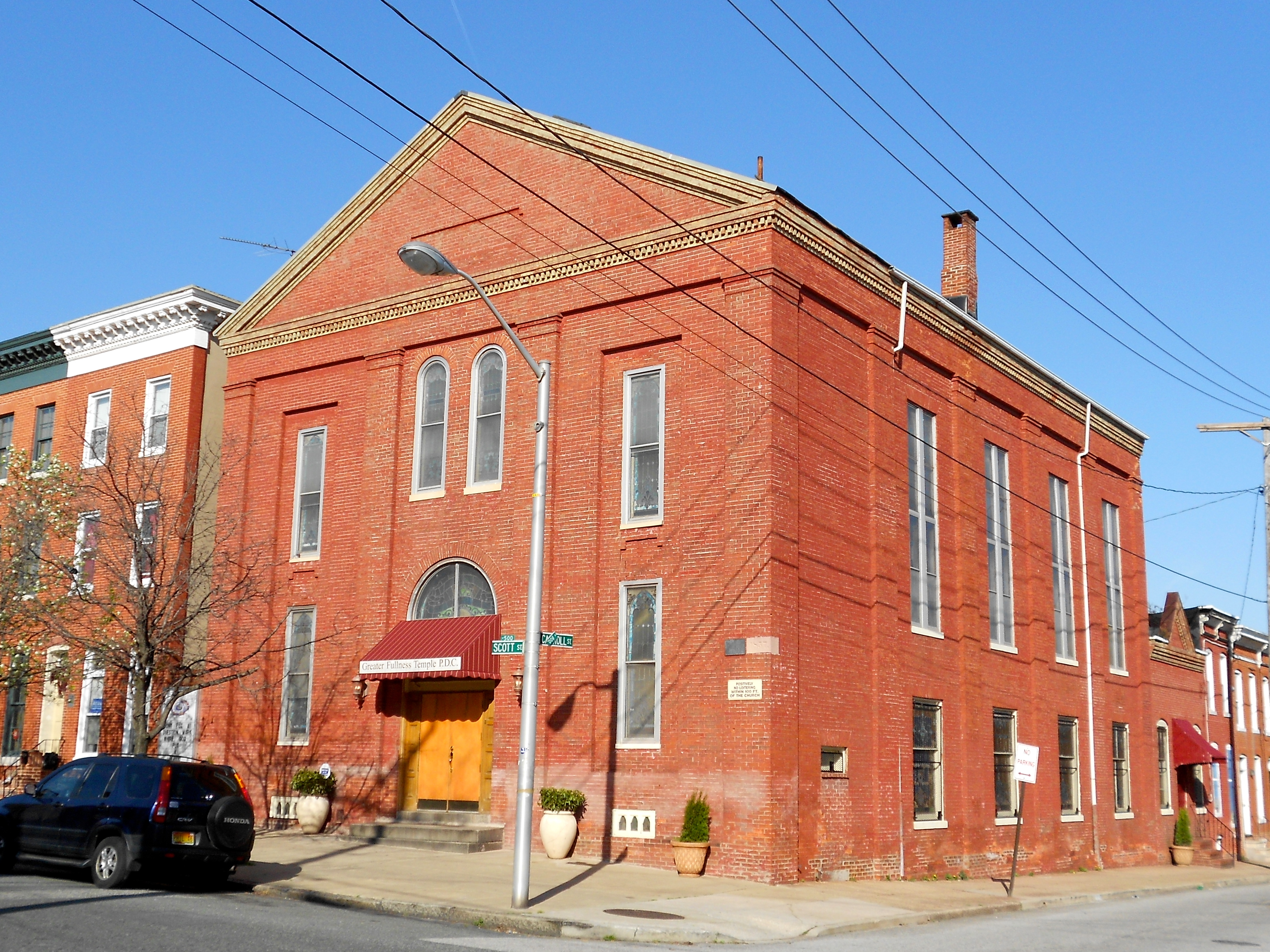 Dorguth Memorial United Methodist Church on the NRHP since August 14, 1979. At Scott and Carroll St. in south Baltimore, Maryland.